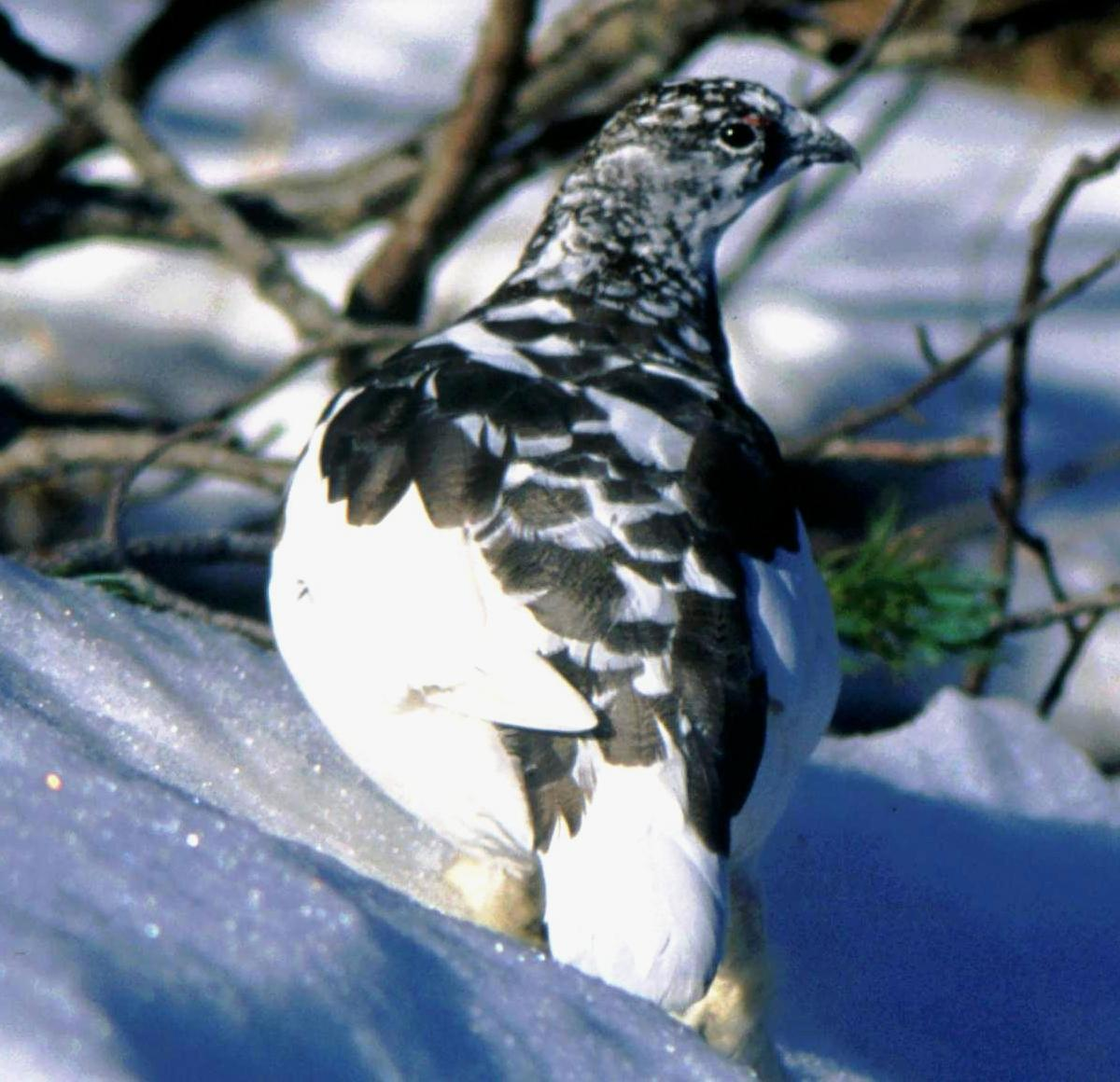 Rock Ptarmigan (Lagopus muta japonica, Lagopus mutus japonicus), male of summer plumage in Mount Senjō, Japan.